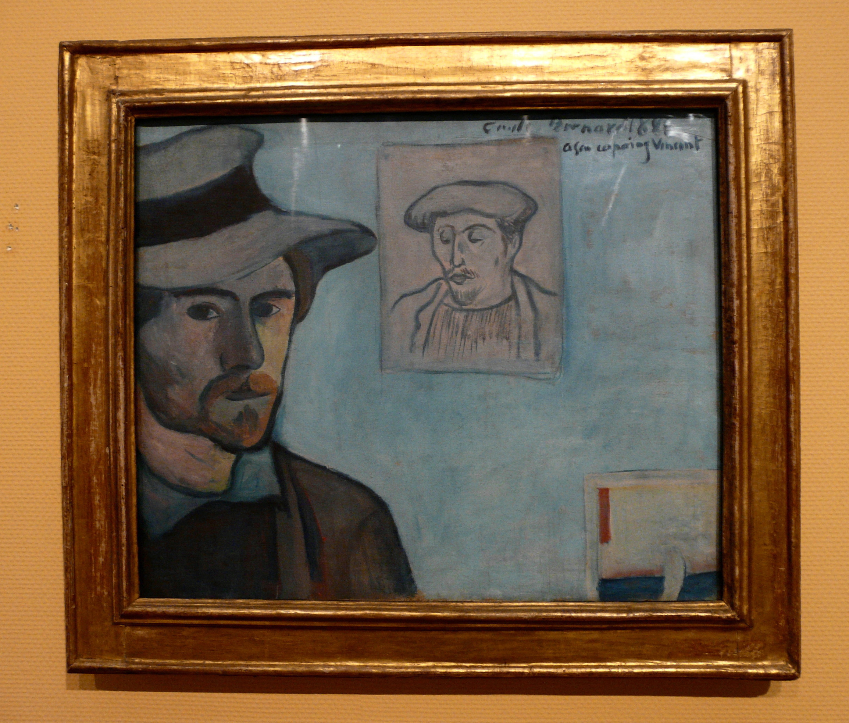 Bernard painted this painting at the request of Vincent Van Gogh who, like Japanese painters, wanted to exchange works with his fellow painters.